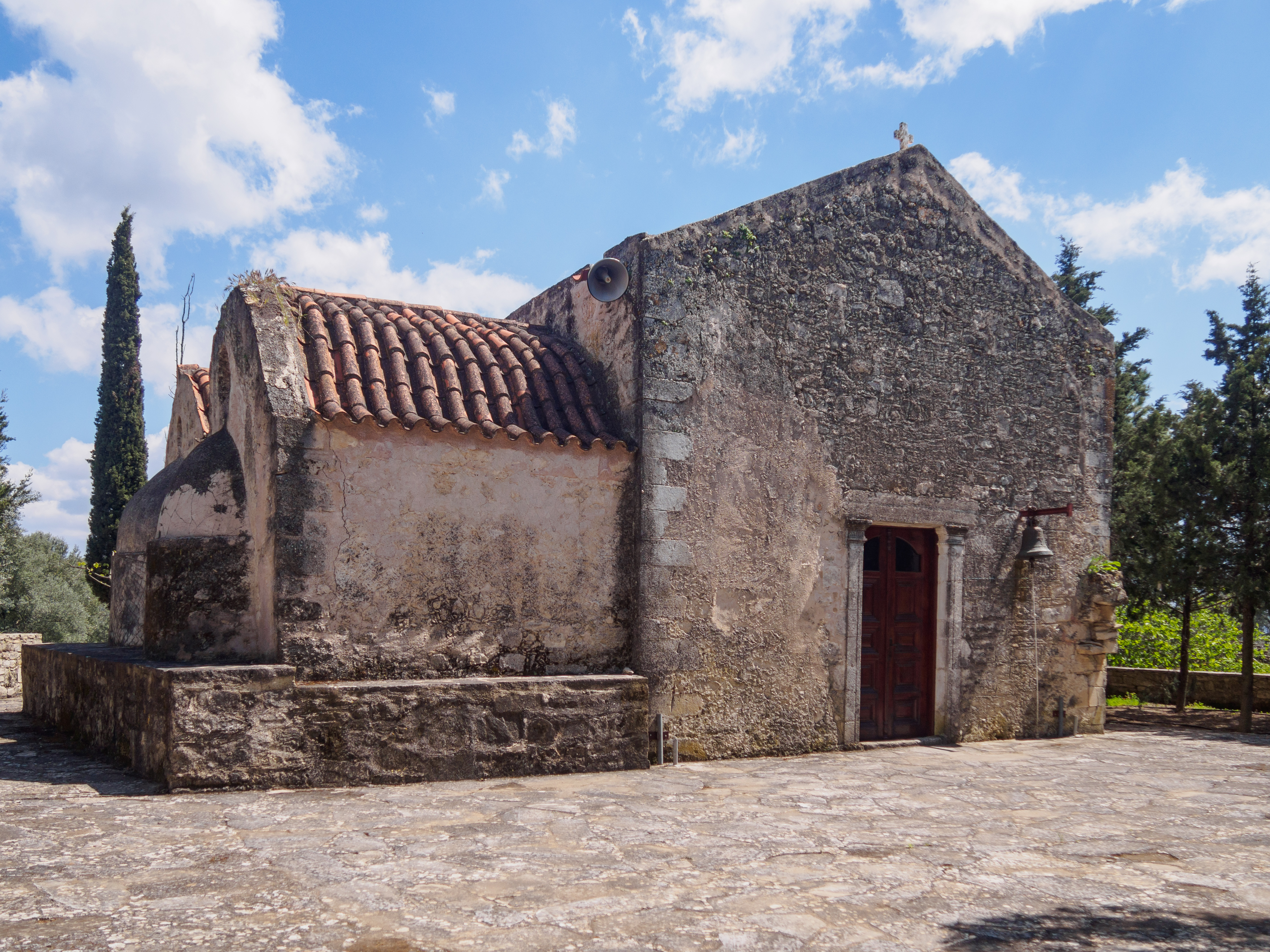 The church of Mary of the Angels at Fradio. It was the church of a now defunct Frangiscan Monastery at the 15th century.